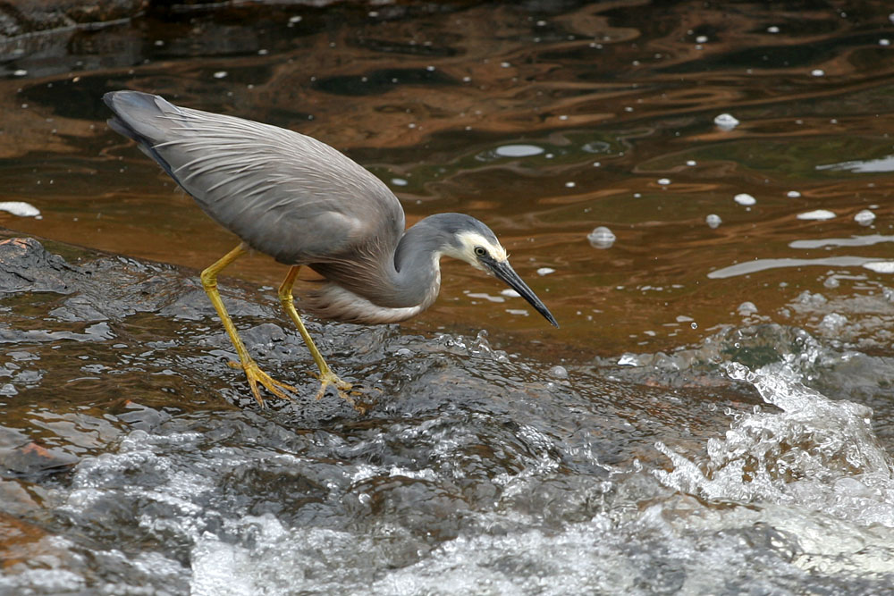 White-faced Heron fishing in a small waterfall at Serpentine Falls, Serpentine National Park, Western Australia. taken by Martin Pot, 20 October 2007 Martybugs 08:57, 21 October 2007 (UTC)